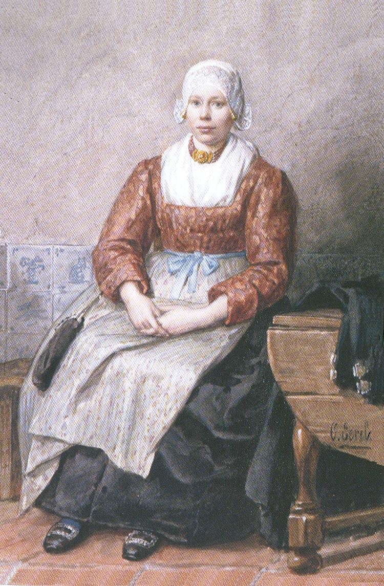 Portrait of Evertje Schouten (1852-1945), Queen Wilhelmina's childhood nurse